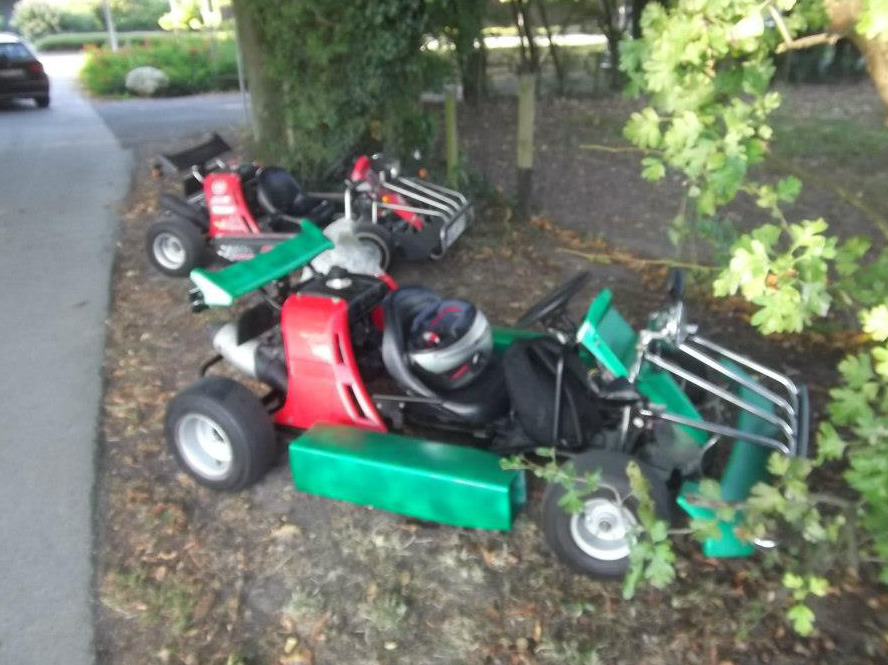 street karts parking at public road.